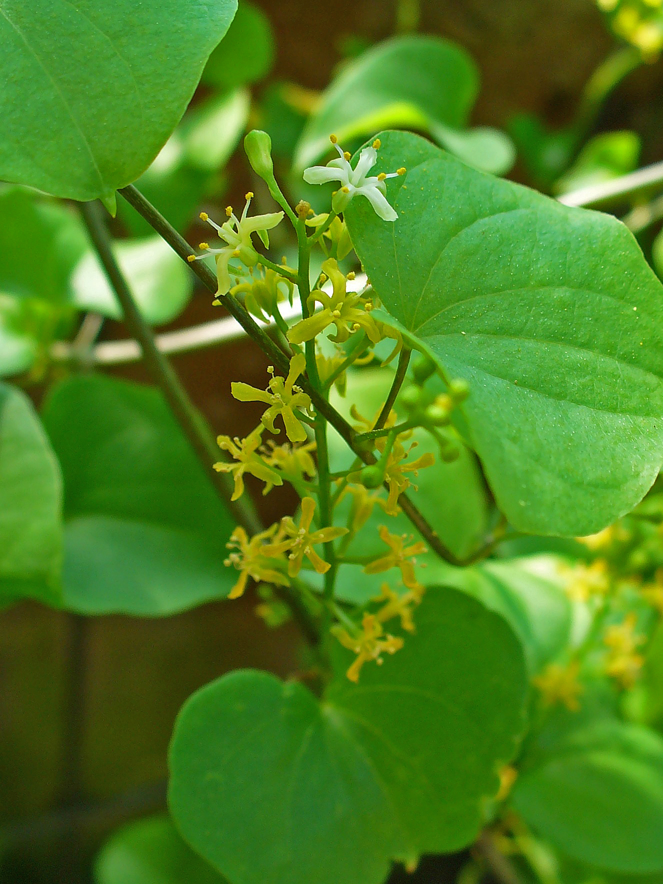 Dioscorea elephantipes, Dioscoreaceae, Elephant's Foot, Hottentot bread, inflorescence; Botanical Garden KIT, Karlsruhe, Germany. The plant is used in homeopathy as remedy: Dioscorea elephantipes (Dios-e.)